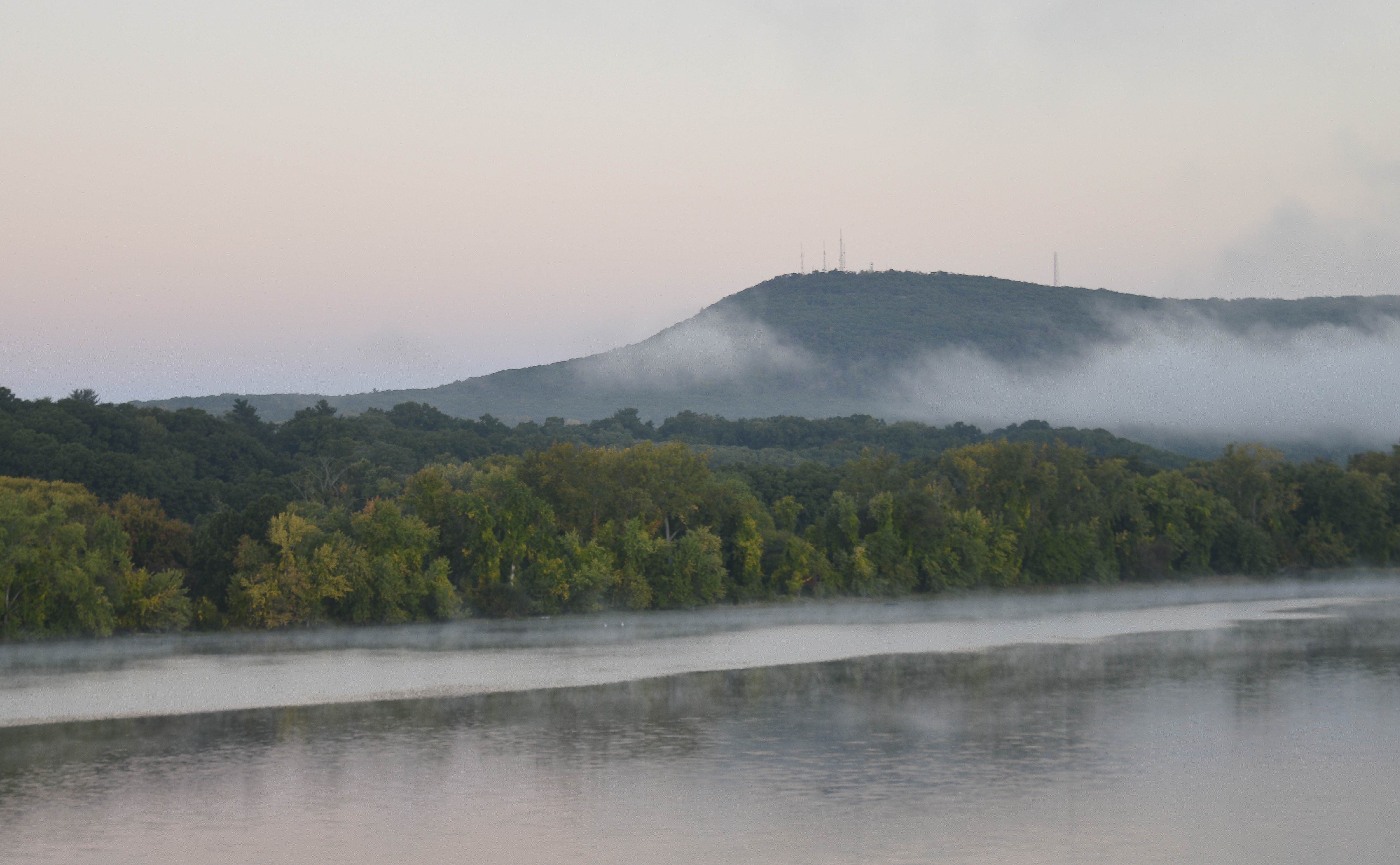 Photo of Mount Tom rising above a cloud of fog with the Connecticut River in the foreground, as seen from the Muller Bridge